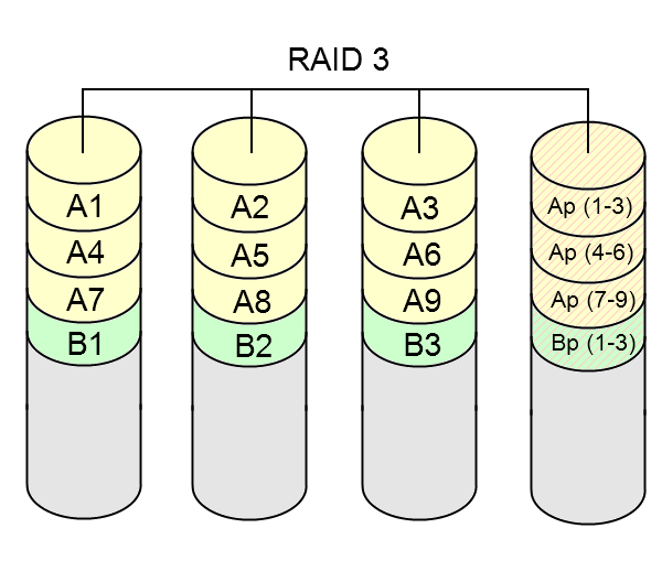 Diagram of RAID 3 storage